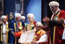 S. R. Ramaswamy receiving the D. Litt from Karnataka State Open University (KSOU) for lifetime contribution to Journalism and Literature